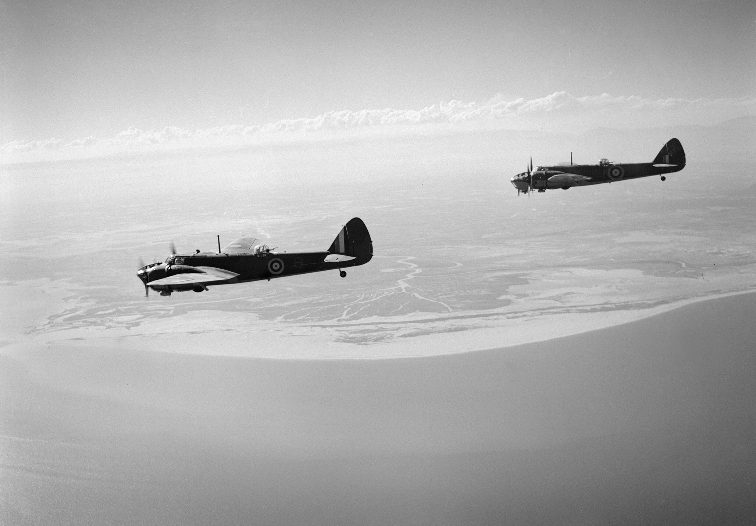 Royal Air Force Operations in the Middle East and North Africa, 1939-1943. Bristol Blenheim Mark IVs of Nos. 84 and 203 Squadrons RAF Detachments based at H4 landing ground in Transjordan, en route to attack Palmyra airfield during the first sortie by the RAF against Vichy French targets in Syria